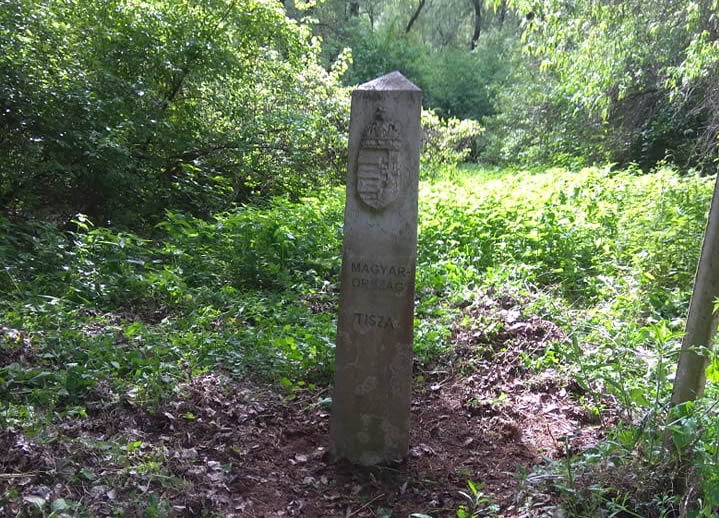 Tripoint Hungary-Slovakia-Ukraine. Border sign TISZA/HU